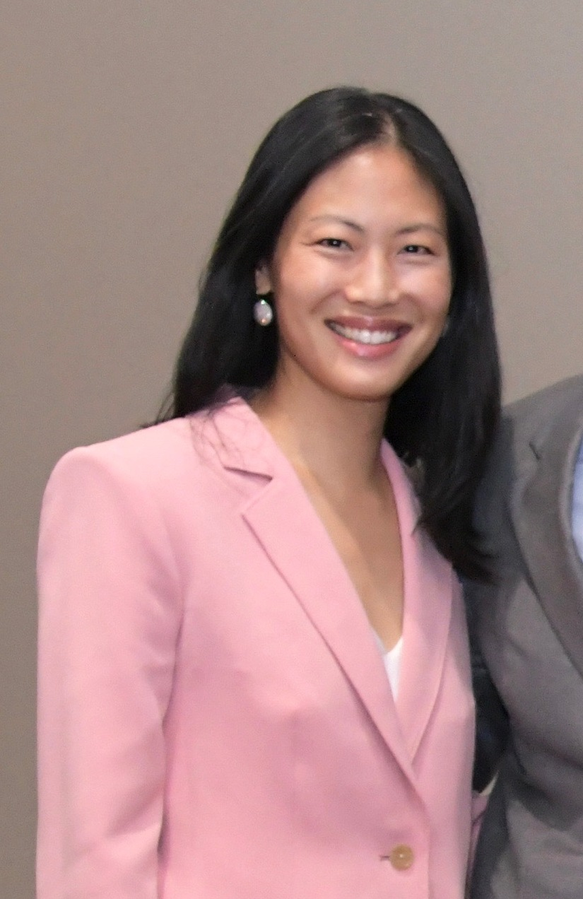 Mitchell Rales, Emily Wei Rales, Yumi Hogan, Isaiah Leggett